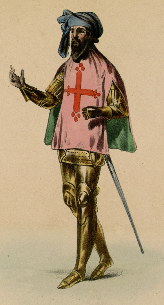 A representation of Ramon VII, count of Tolosa (Occitania)